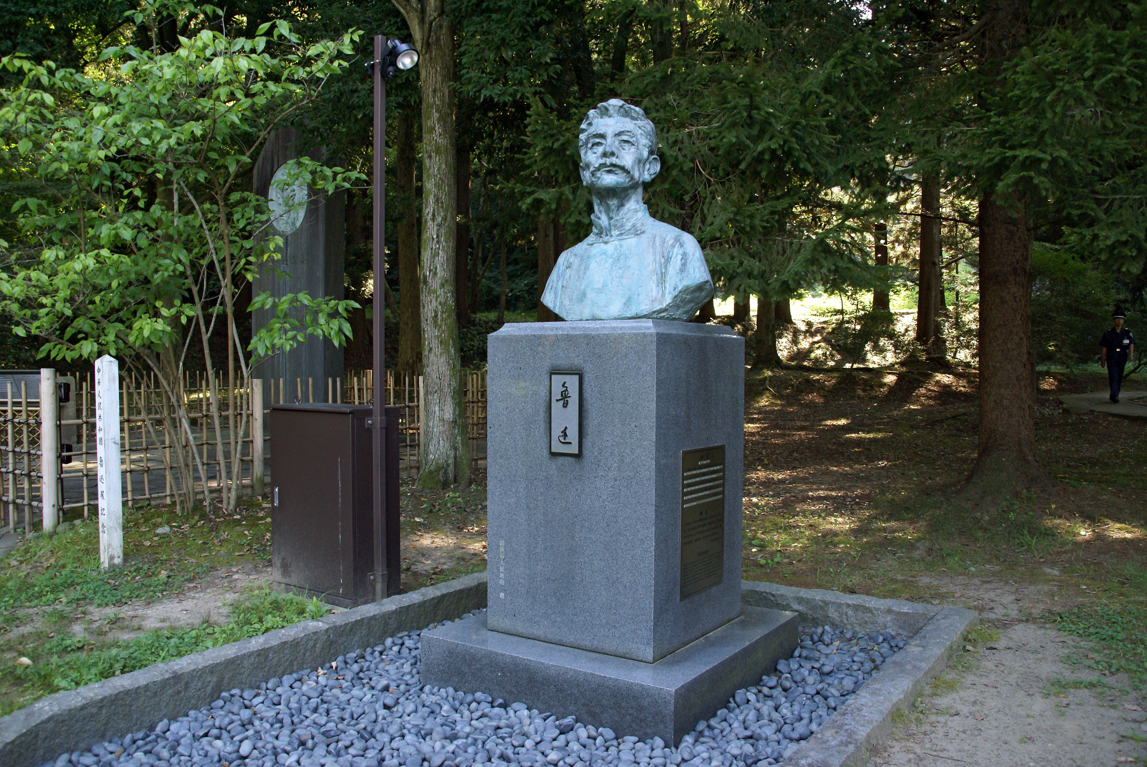 Sendai City Museum of Art in Sendai, Miyagi prefecture, Japan